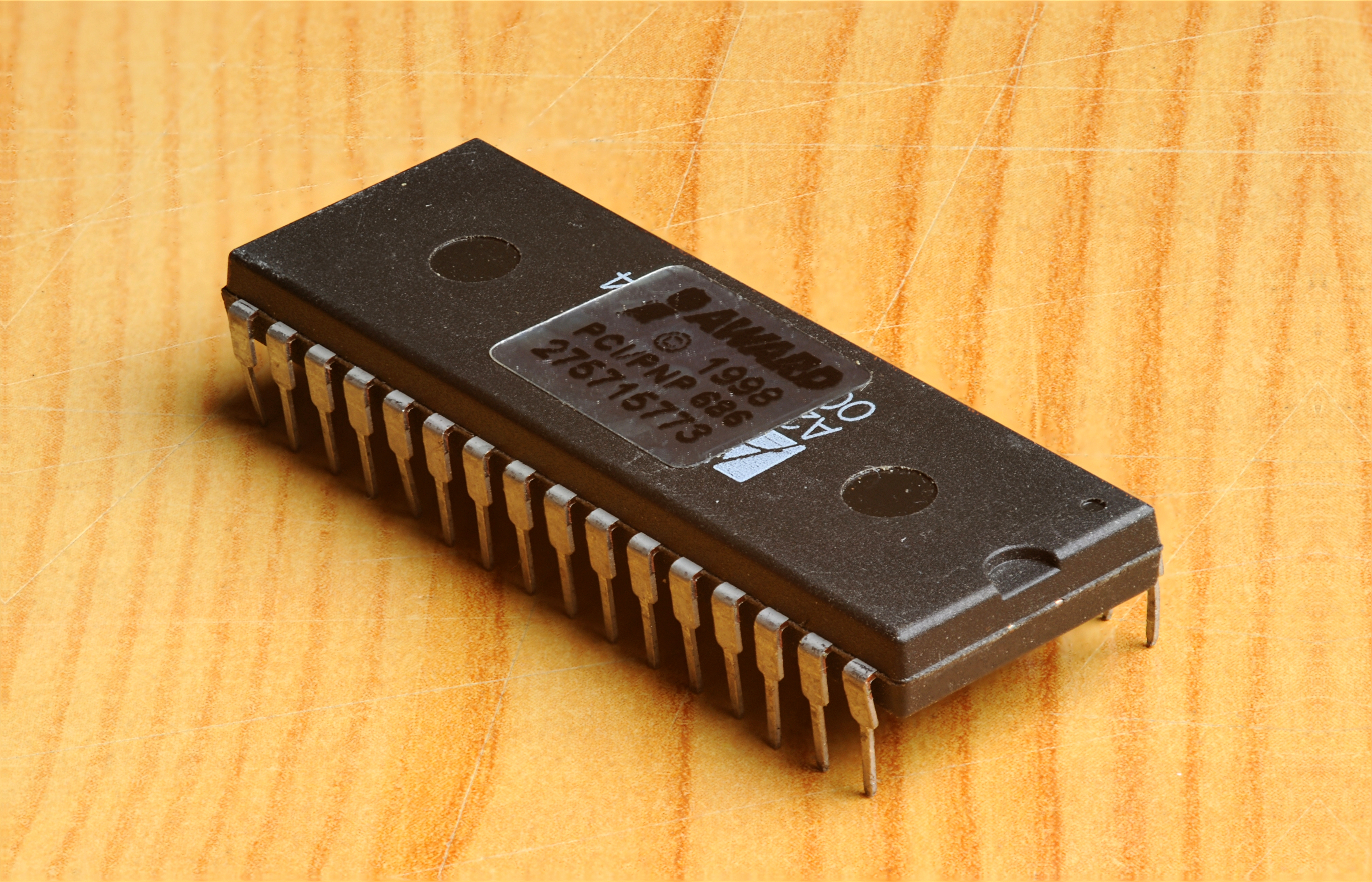 Picture of an integrated circuit used for a computer's BIOS. This picture was made from 33 pictures by focus stacking.